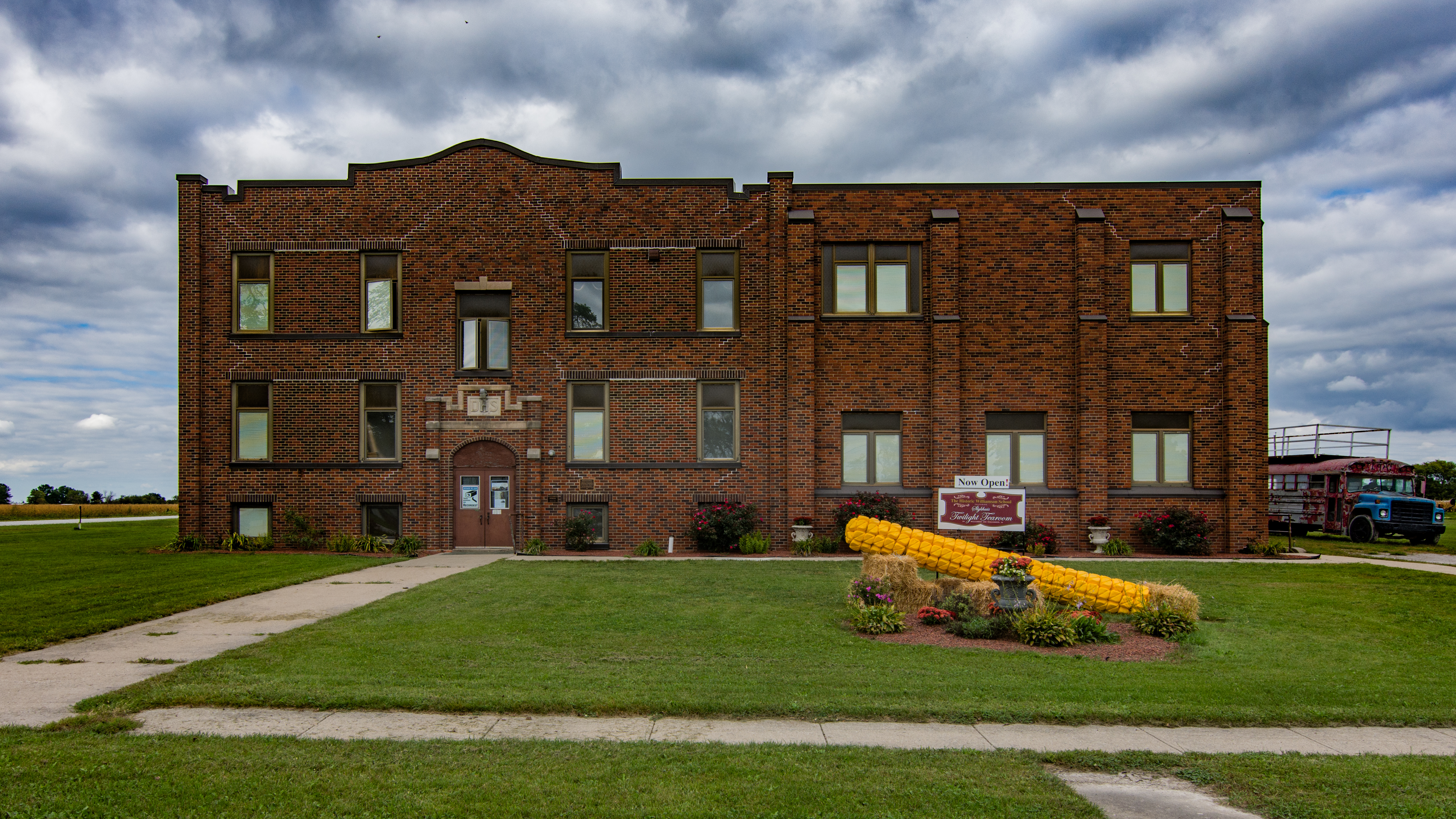 Williamson School Front (South face) Williamson Iowa NRHP 98000374